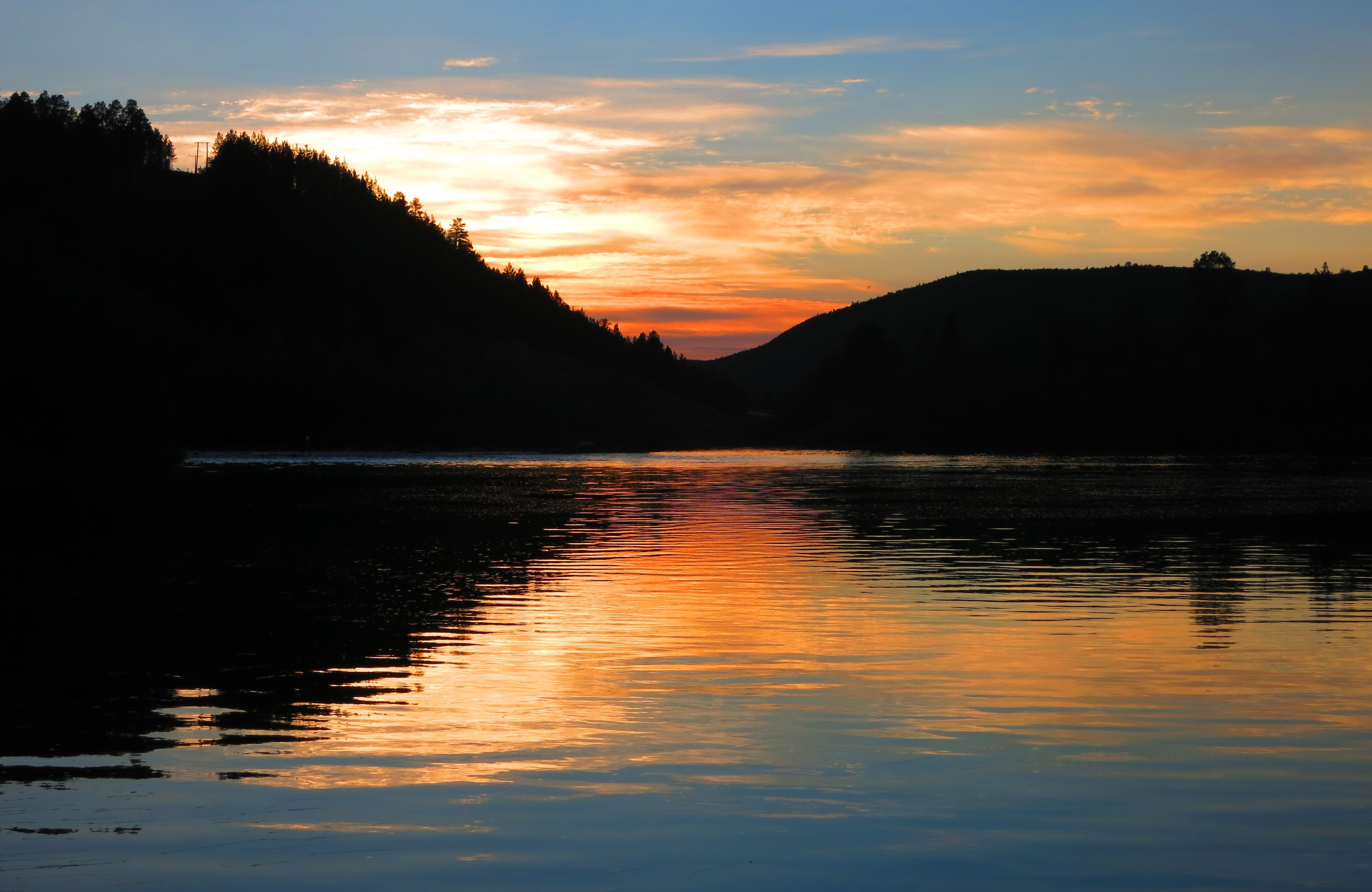 Lake Kenesjärvi in the middle of July, during the darkest period of the twenty-four hours; view from Kenestupa to north (Utsjoki, Lapland, Finland). In this district, polar day (midnight sun) lasts from the middle of May almost until the end of July.